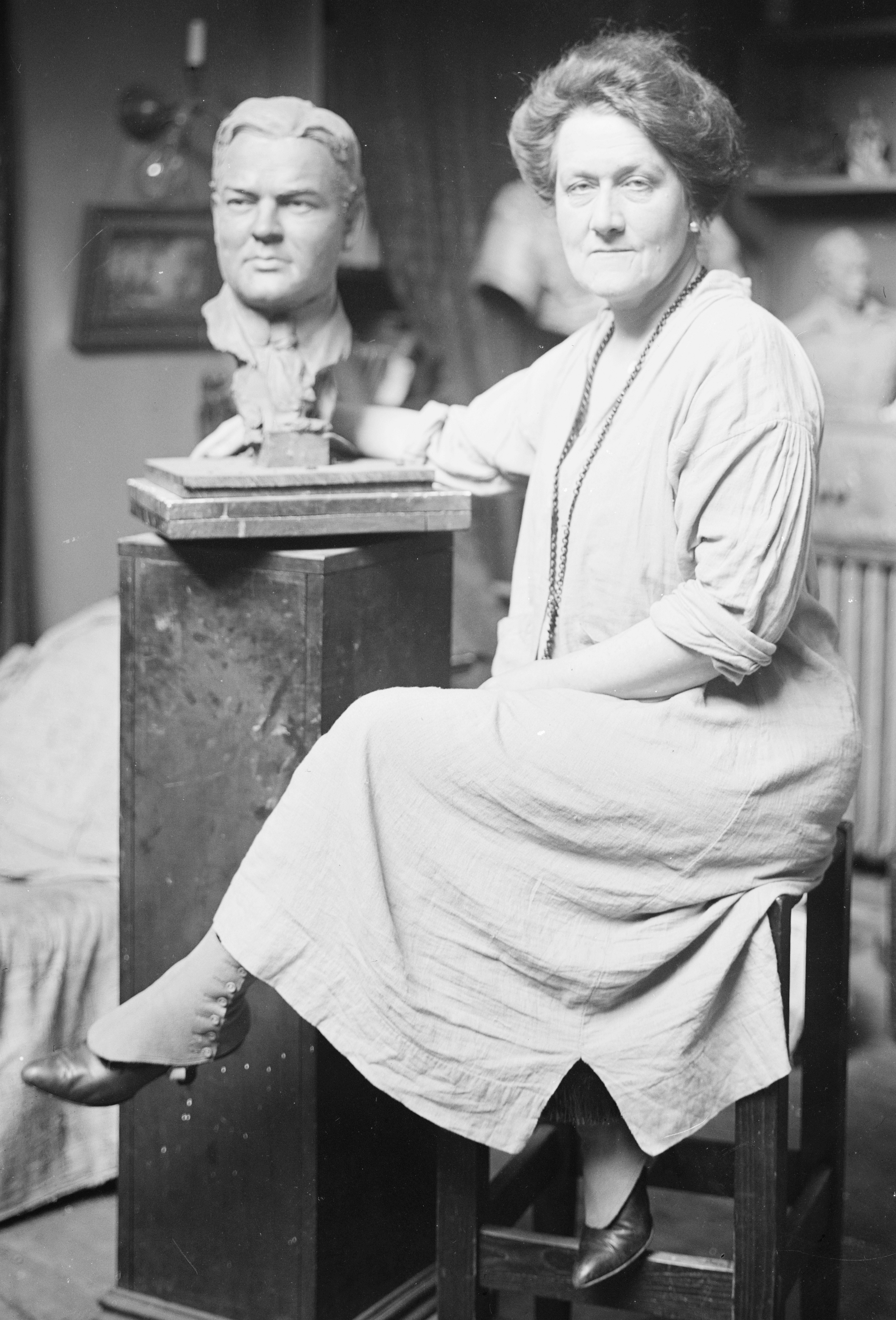 American sculptress Sally James Farnham (1869-1943)